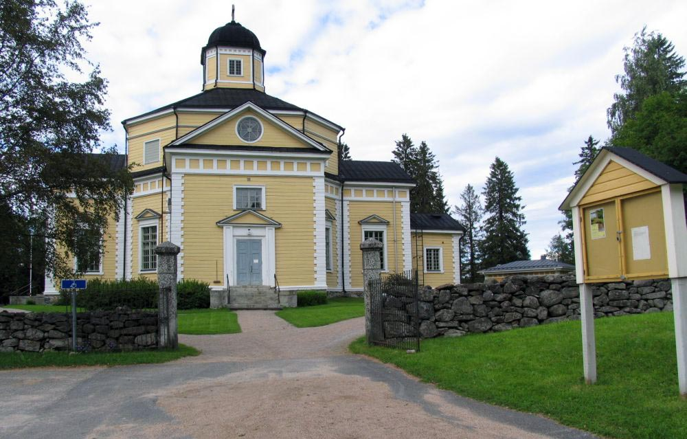 Juuka Church in Juuka, Finland. Built in 1850–1851. Architect: C. A. Gustavsson.